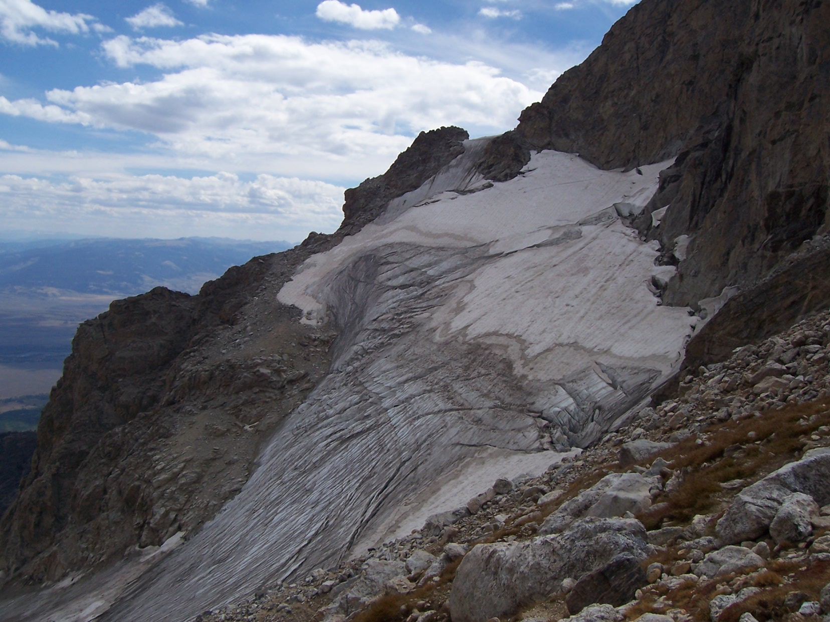 Middle Teton Glacier in Grand Teton National Park, WY, USA. This view of the glacier is to the south.